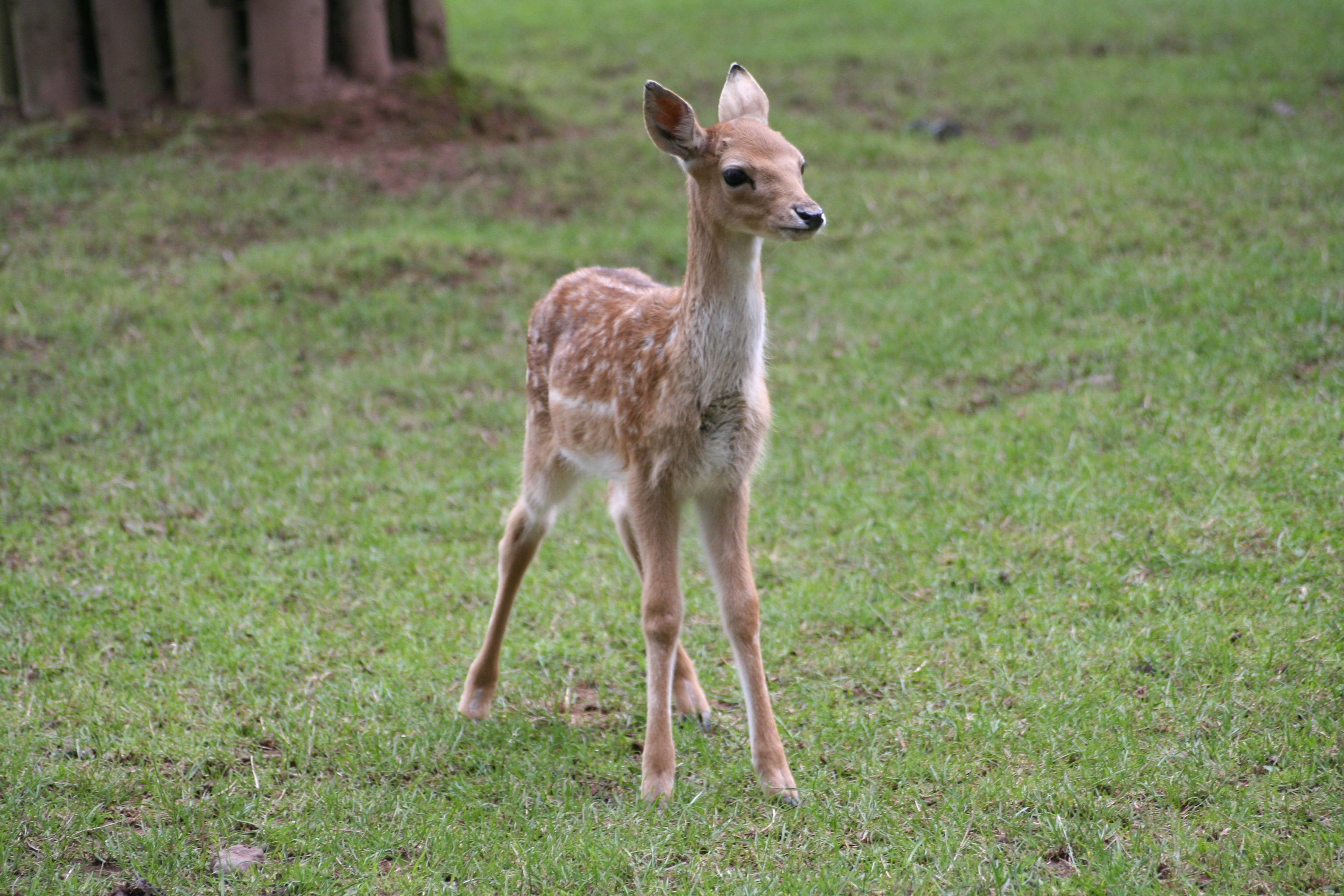 Young deer at the natural park of Silz in Germany (Rhineland-Palatinate)